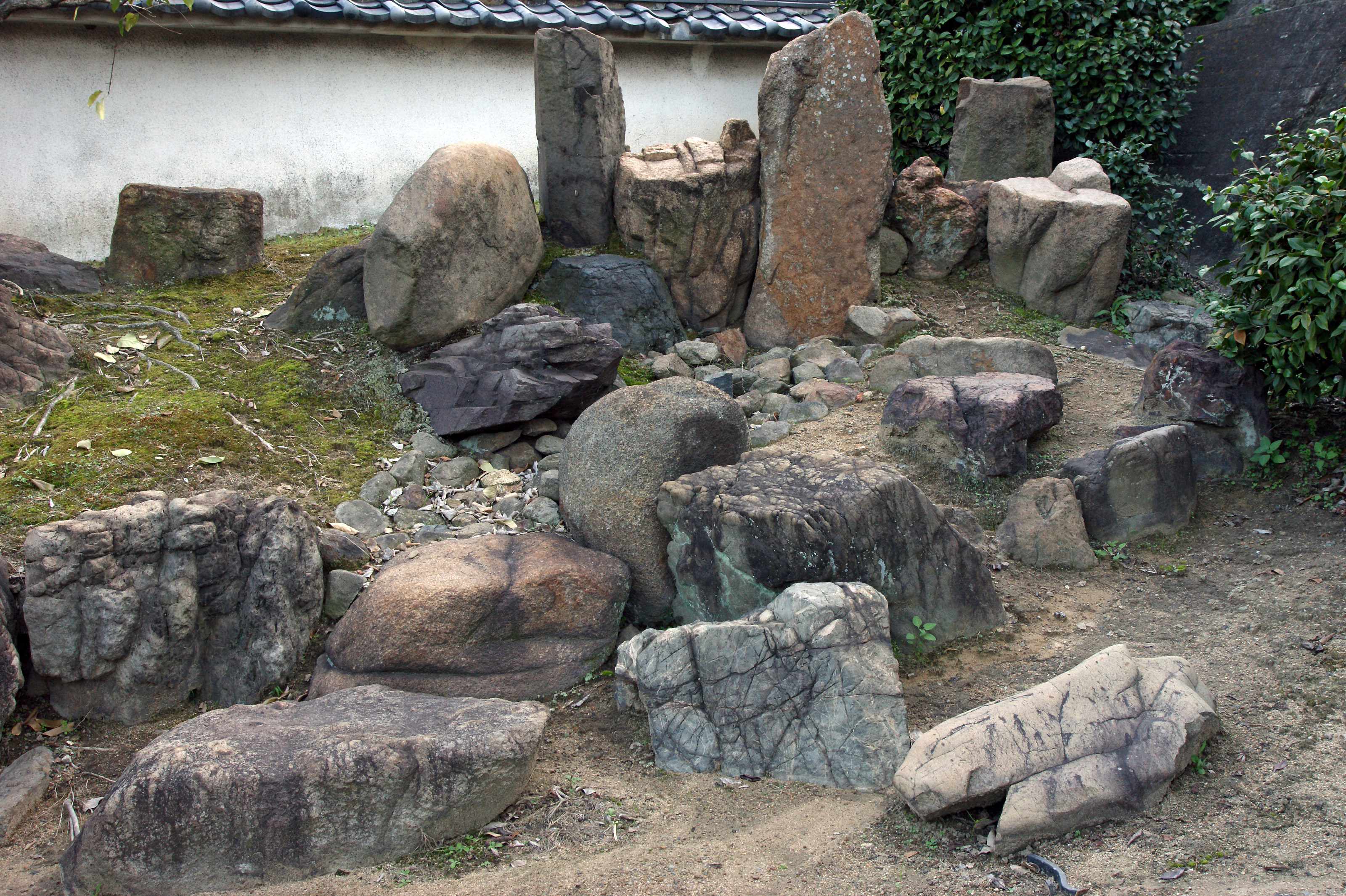 Ankokuji, Fukuyama, Hiroshima Prefecture, Japan